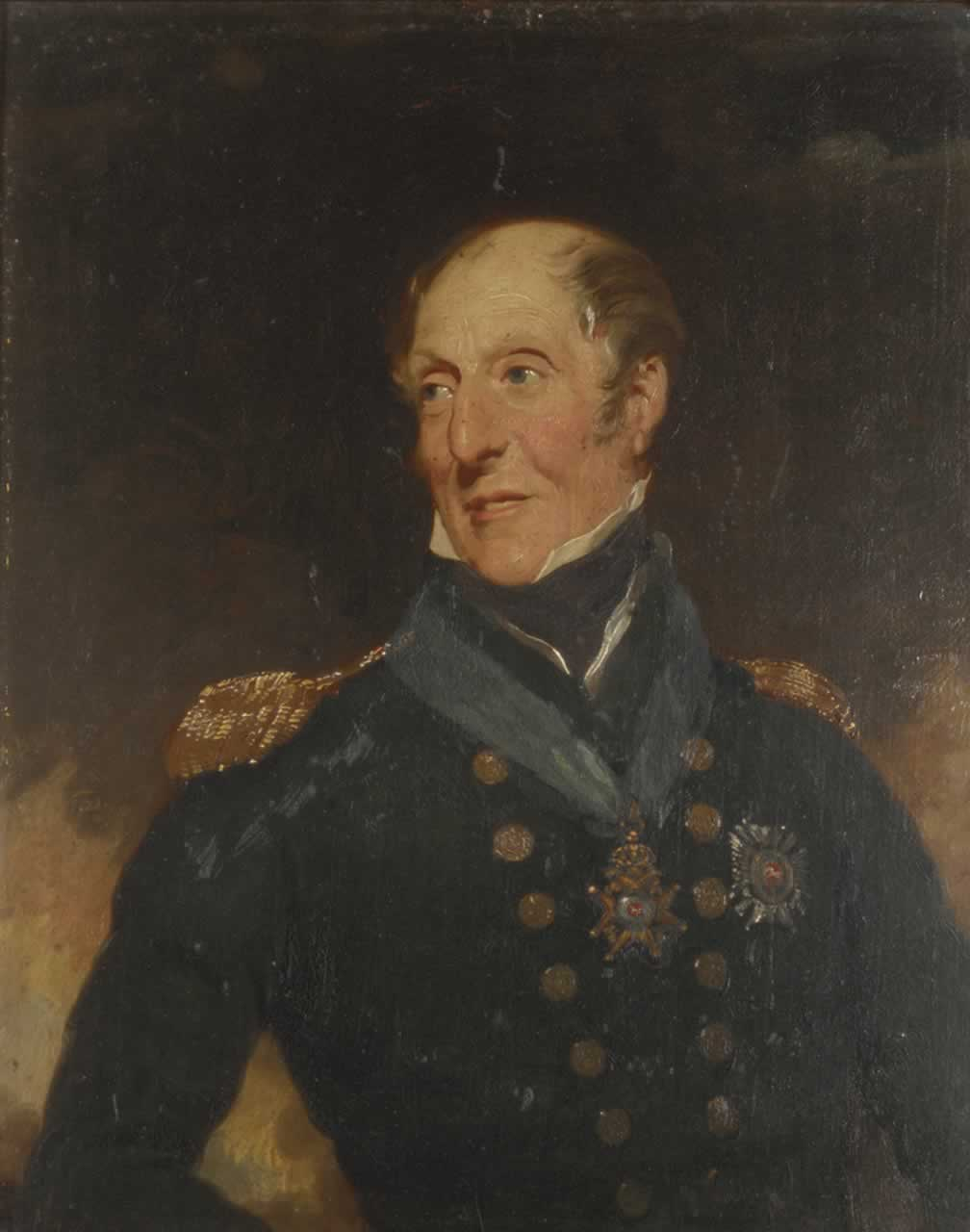 Cunningham is shown wearing rear-admiral’s undress uniform, 1833–55, with the star and neck order of a Knight Commander of Hanover.